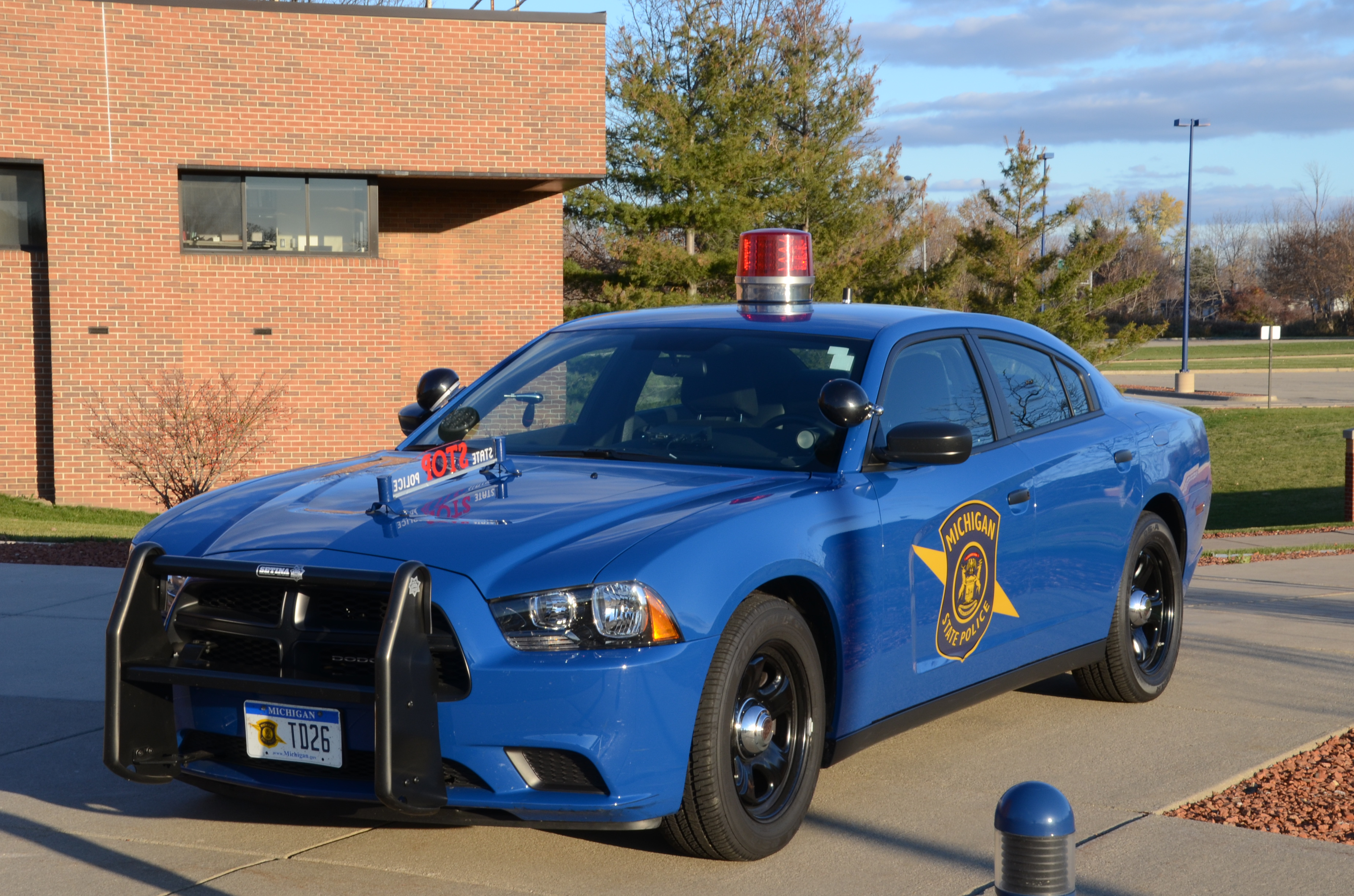 Michigan State Police cars parked in front of the State Police Training Academy in Dimondale, Michigan on a nice fall evening. Taken October 27, 2012